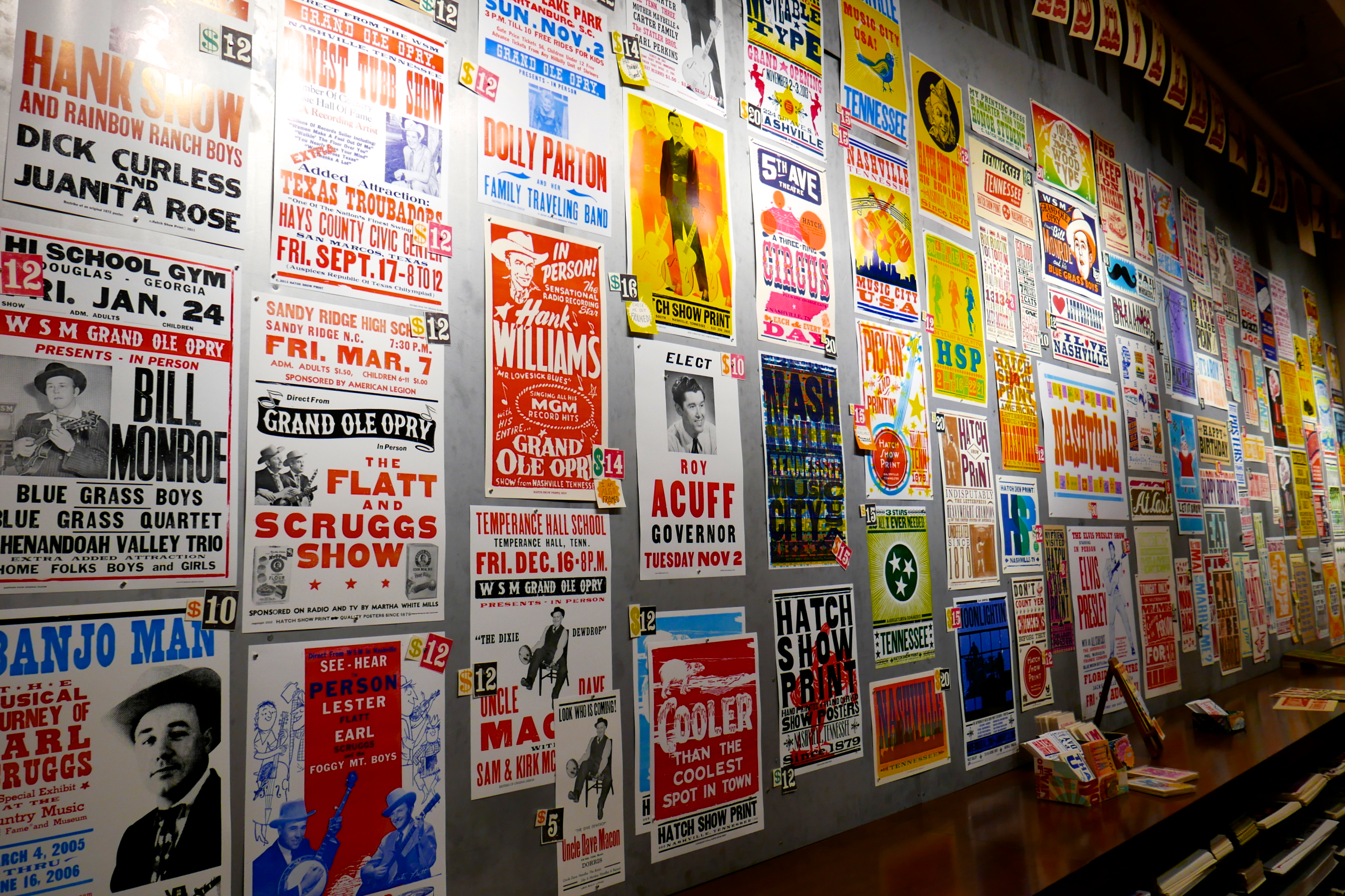 Hatch Show Print at Country Music Hall of Fame and Museum, Nashville